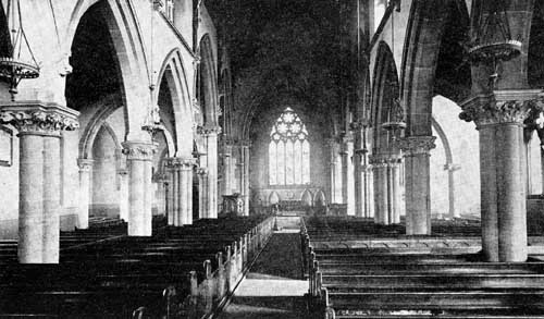 1864 interior view of the former nave of St Mary the Virgin, Hunslet. Looking east, towards chancel. The church was designed by Perkin and Backhouse in 1864, but the nave was demolished and rebuilt in 1975. In this view, some of the carving by Burstall and Taylor can be seen on the gallery capitals.